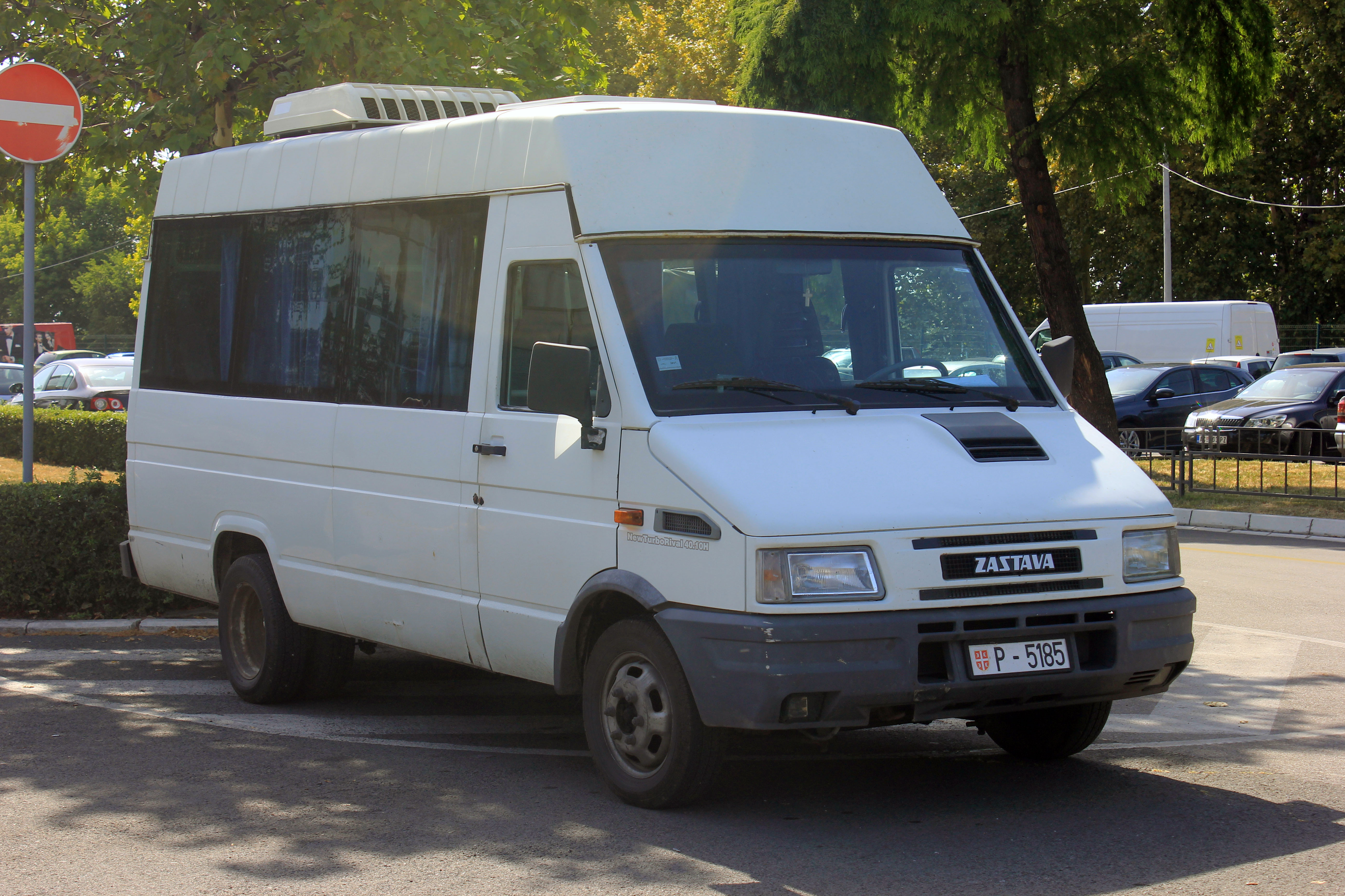 Zastava New Turbo Rival 40.1H van of Serbian Army.